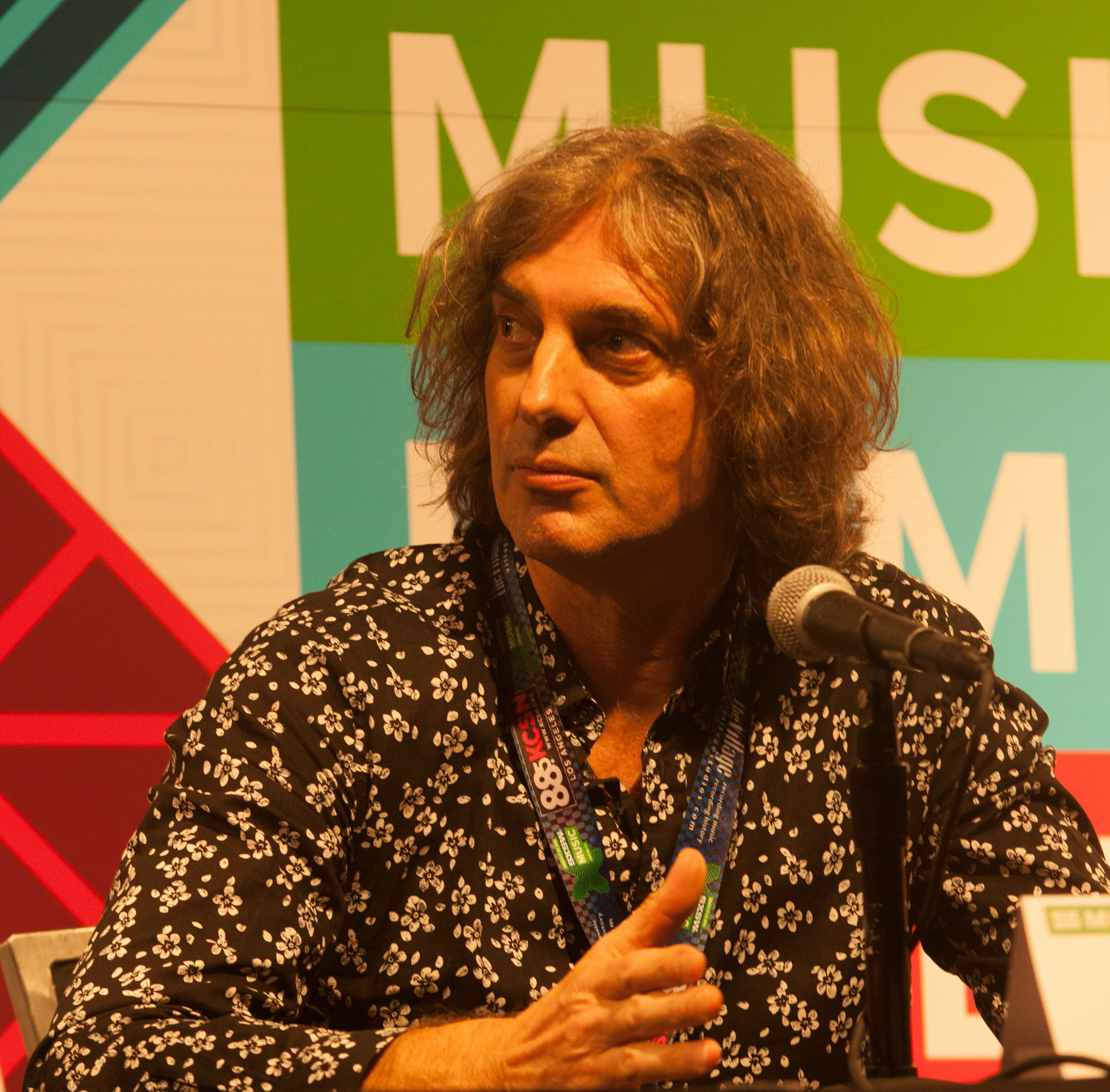 Peter Koppes at SXSW in 2015